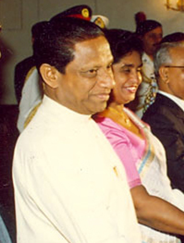 President of SriLanka Ranasinghe Premadasa at Bangabhaban in Dhaka, Bangladesh in 1992.